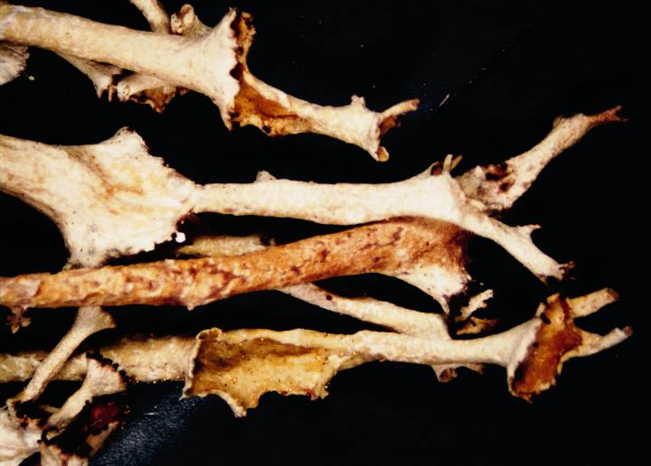 Cladonia cenotea (Ach.) Schaer., 1823 (photograph of a herbarium specimen taken through a dissecting microscope (x6) showing podetia) Growing on stumps in mixed forest along Caribou Plain Trail, at Fundy National Park, New Brunswick, Canada; collected and identified by A. Norden and B. Norden (No. L-12, 6 Jun 1974); specimen is now in the Lichen Herbarium of the New York Botanical Garden.